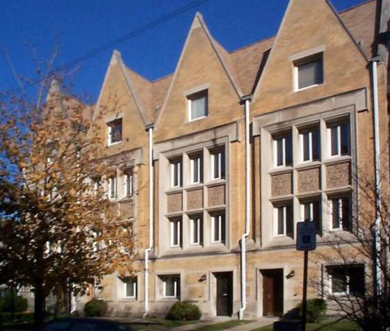 Robert W. Roloson Houses (1894) The only rowhouses Frank Lloyd Wright ever designed, in "the Gap" (aka the Calumet Giles Prairie historic district) on the south side of Chicago, IL. This photo has had minor editing to fix lens distortion in the original image.